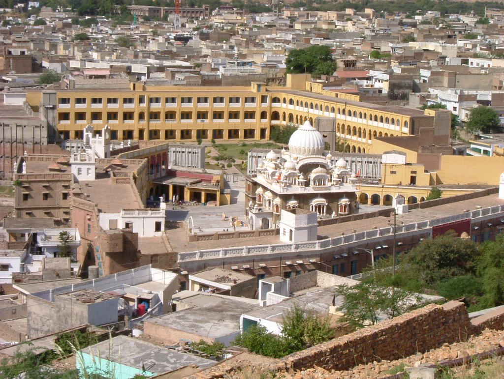 hassanabdal sikh shrin